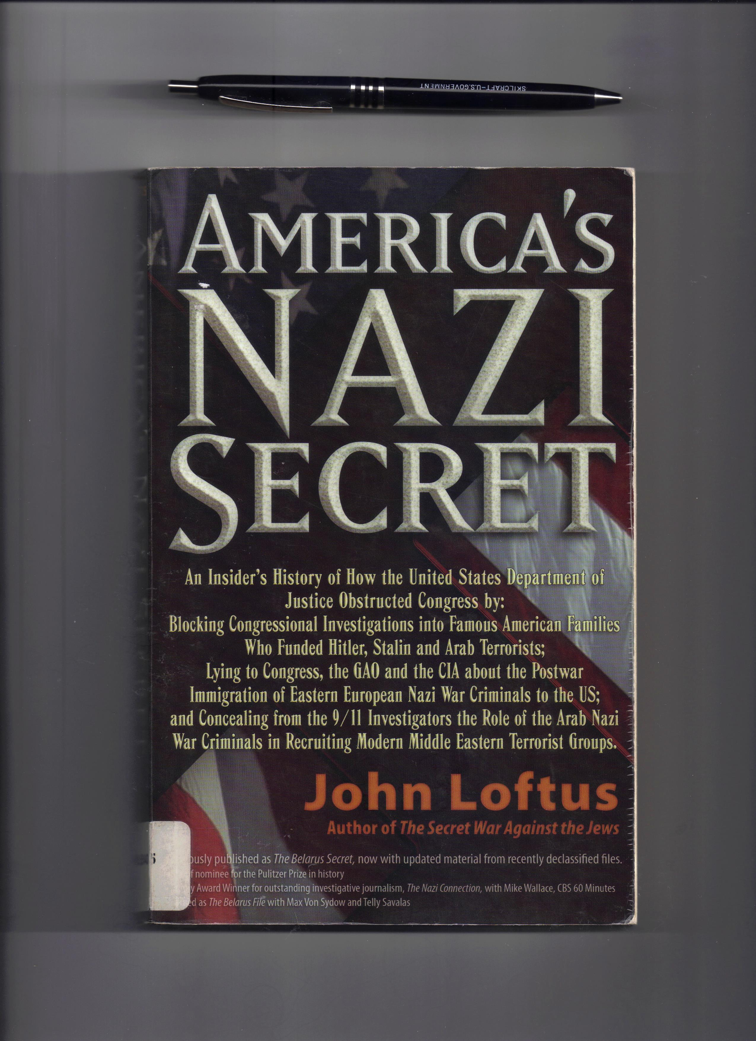 AMERICA'S NAZI SECRET Copyright 1982, 1983, 2010 by John Loftus Copyright 2010 TrineDay, LLC Waterville, OR. Author John Loftus was a U.S. Department of Justice prosecutor. He sums up what he tried to reveal 30 years ago in his book THE BELARUS SECRET. American families who funded Hitler, Ukrainian Nazis snuck into the U.S. and now connections to 9/11 terrorists. He found that J. Edgar Hoover's FBI was not to be trusted. The Counter Intelligence Corps are the heroes of the book but on p. 235 he reveals that by 1963 the CIC had become a different organization.